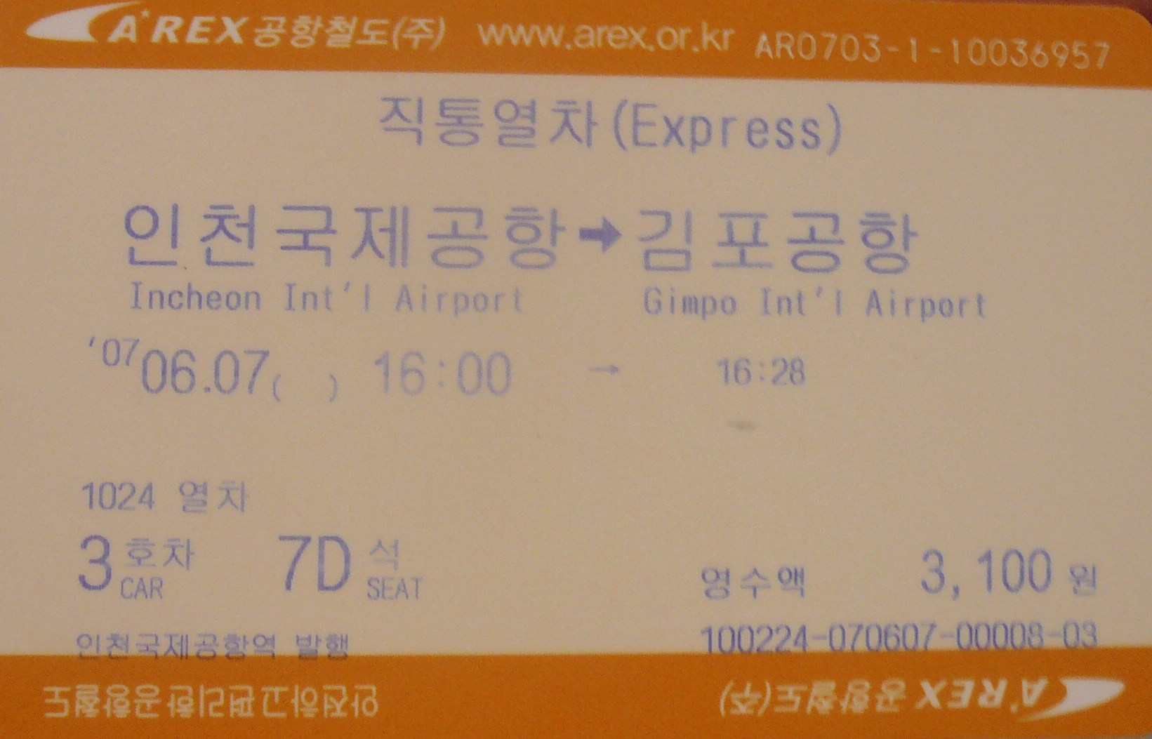 A picture of AREX express ticket I made for wikipedia. Seoul, South korea.